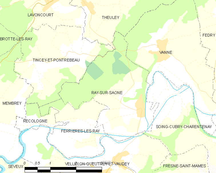 Map of French municipality